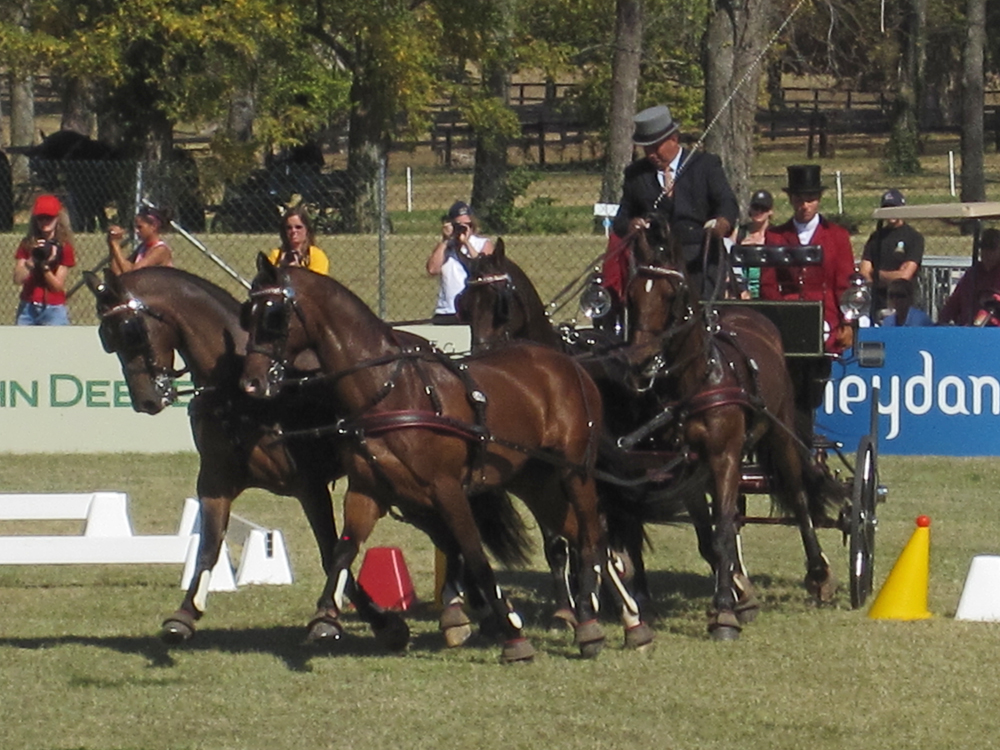 Dressage Driving at the World Equestrian Games 2010